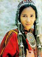 Turkman girl.